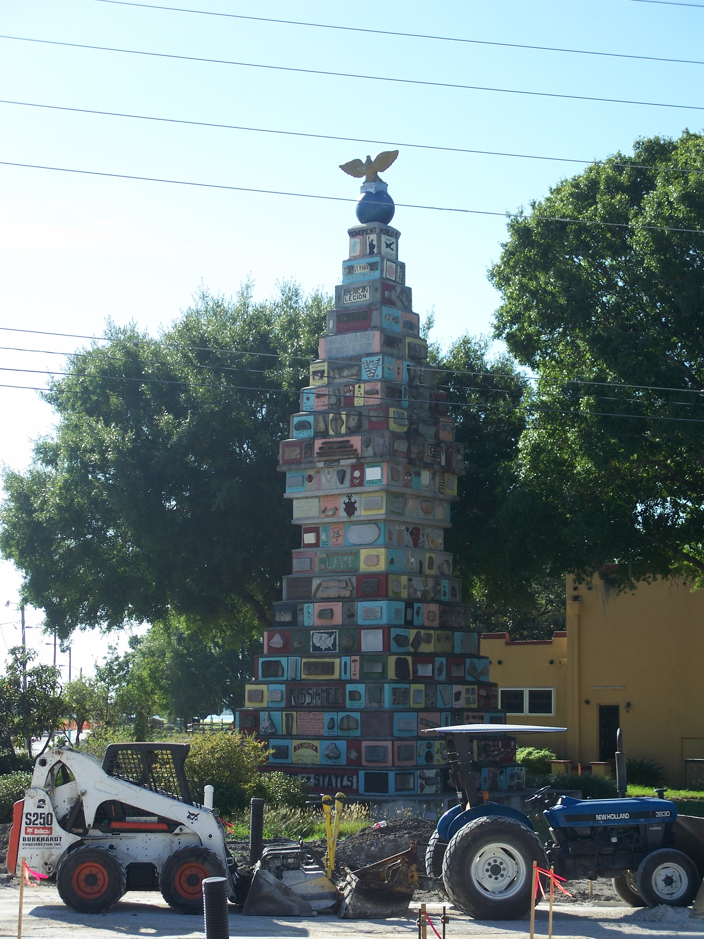 Kissimmee, Florida: Monument of States